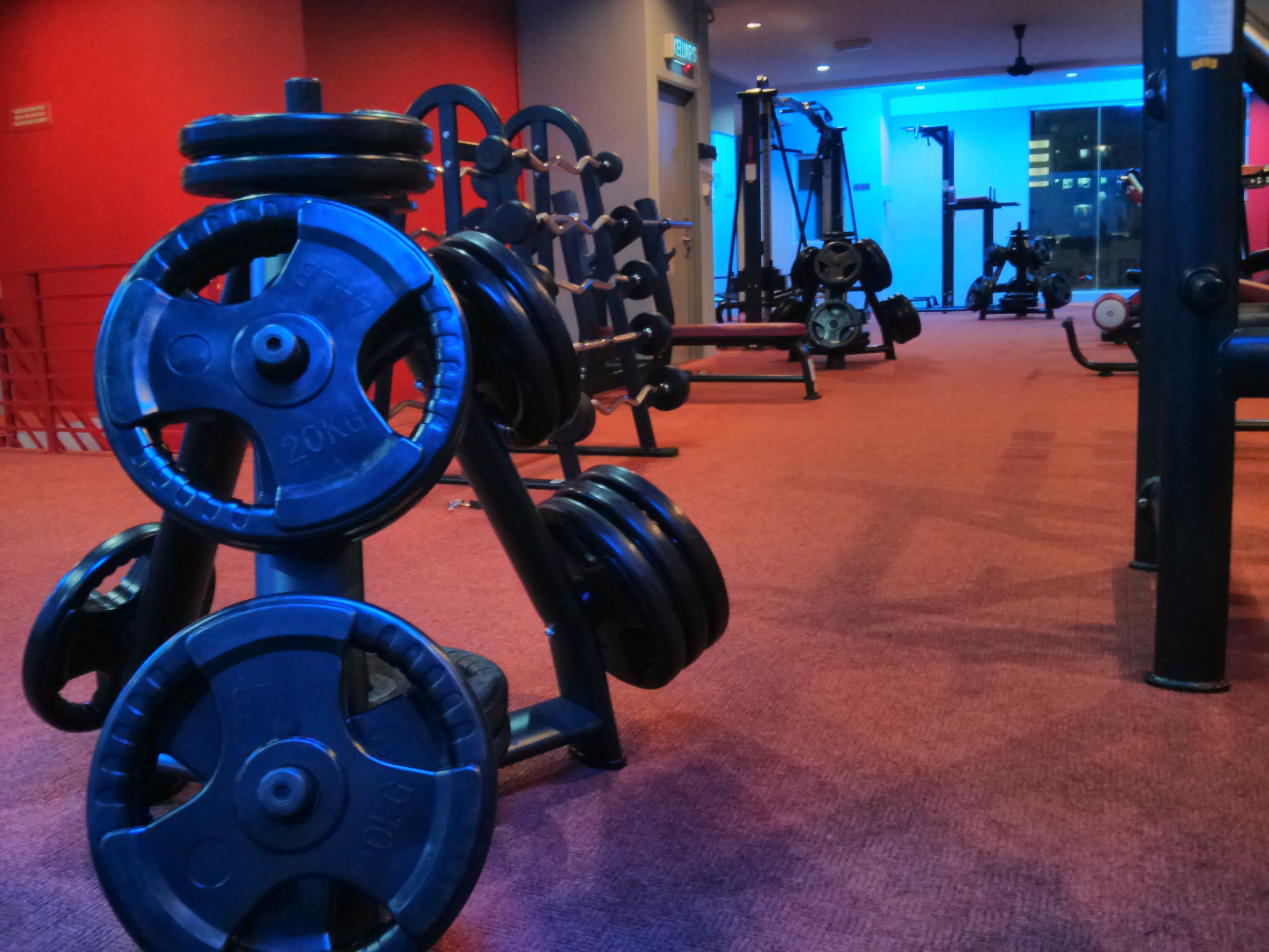 Cobra Gym 24 Hour Fitness